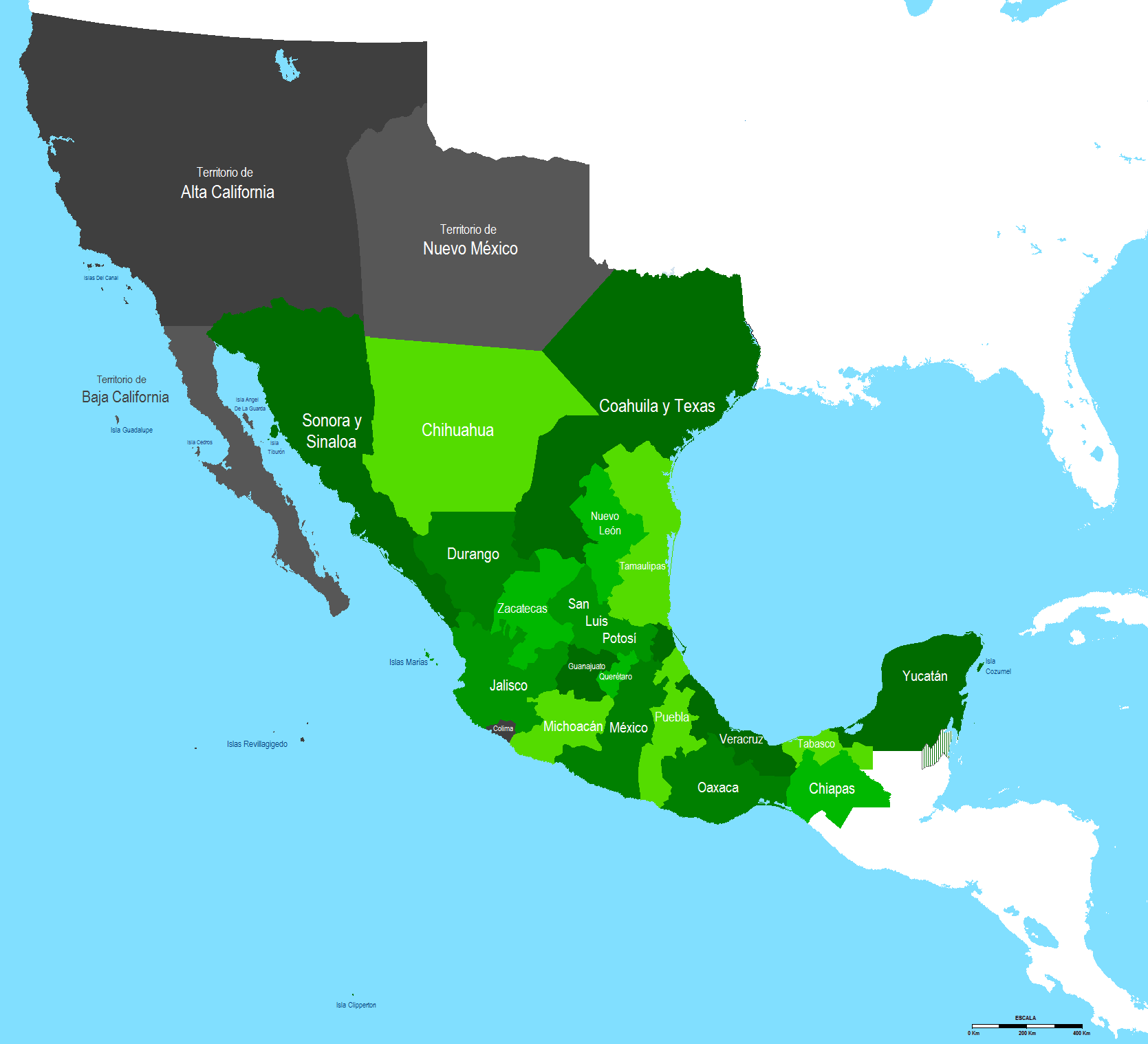 Map of Mexico 1824 (United Mexican States)